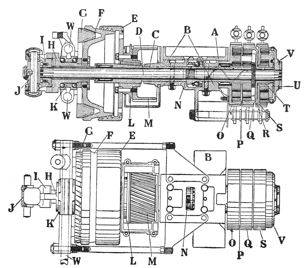 Fig. 59 Lanchester epicyclic gearbox Lanchester epicyclic gearbox Scans from 'The Book of the Motor Car', Rankin Kennedy C.E., 1912 See other images from this source in Scans from 'The Book of the Motor Car'